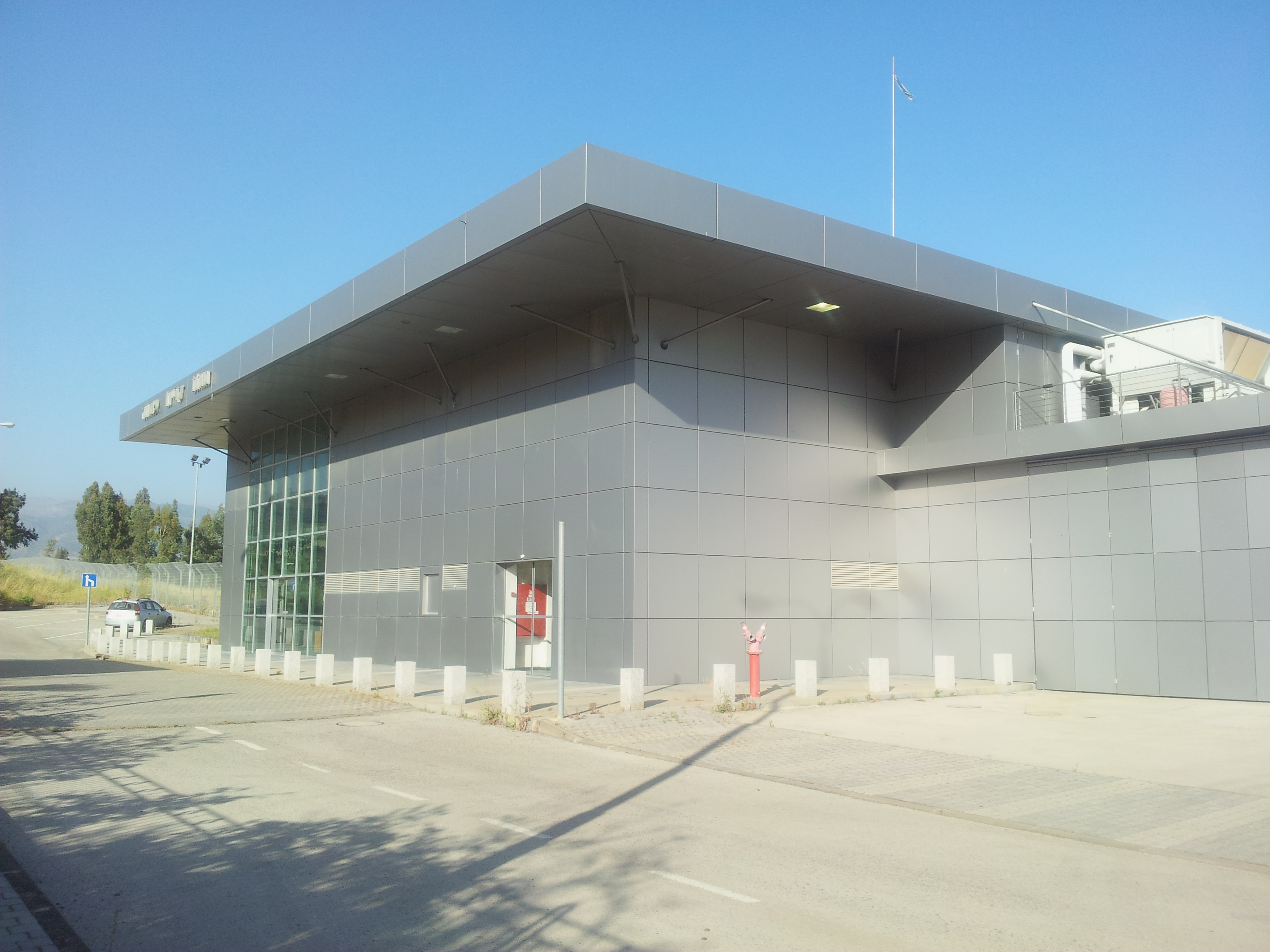 New Terminal at Kiryat Shmona Airport